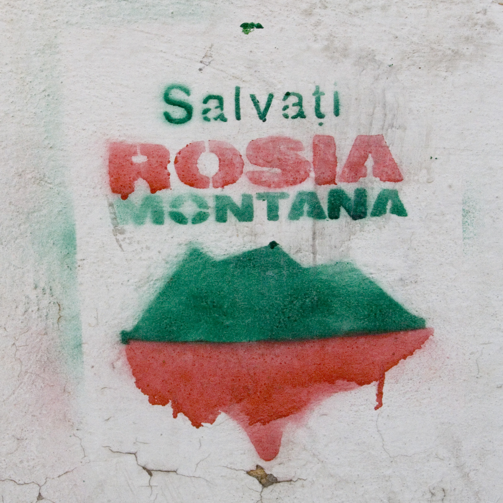 Graffiti "Salvaţi Roşia Montană" (cf. ) in Cluj-Napoca, Romania